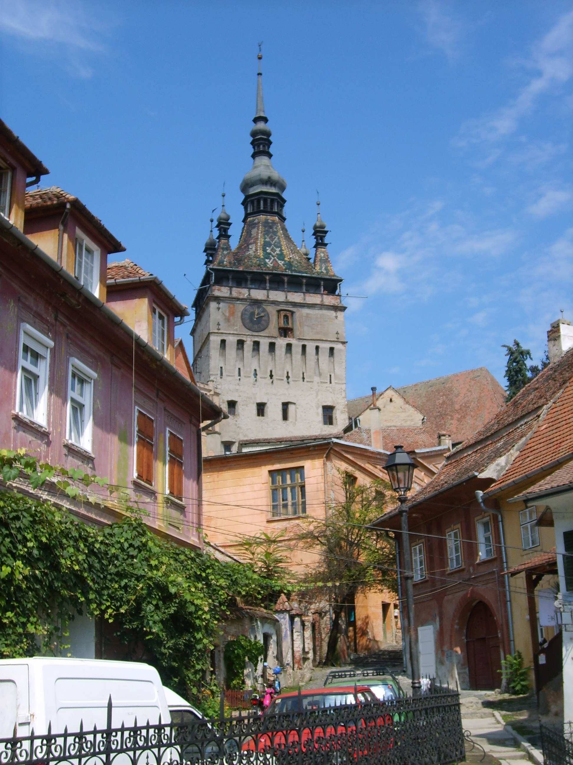 the clock tower in the center of Sighisoara with surrounded by some buildings